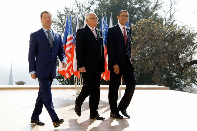 With President of Czech Republic Vaclav Klaus and US President Barack Obama.